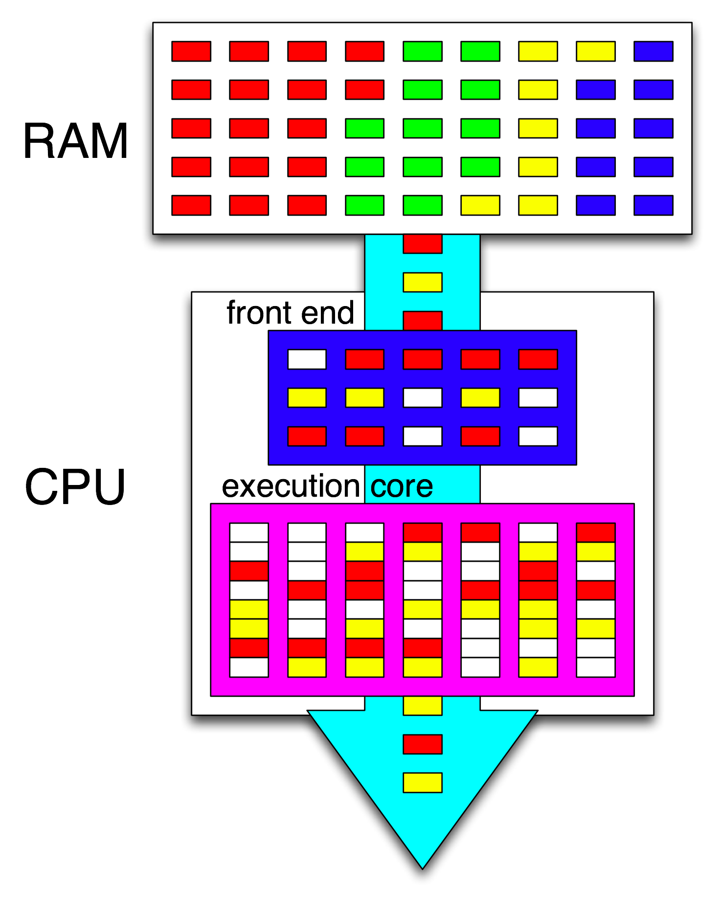 Superthread CPU